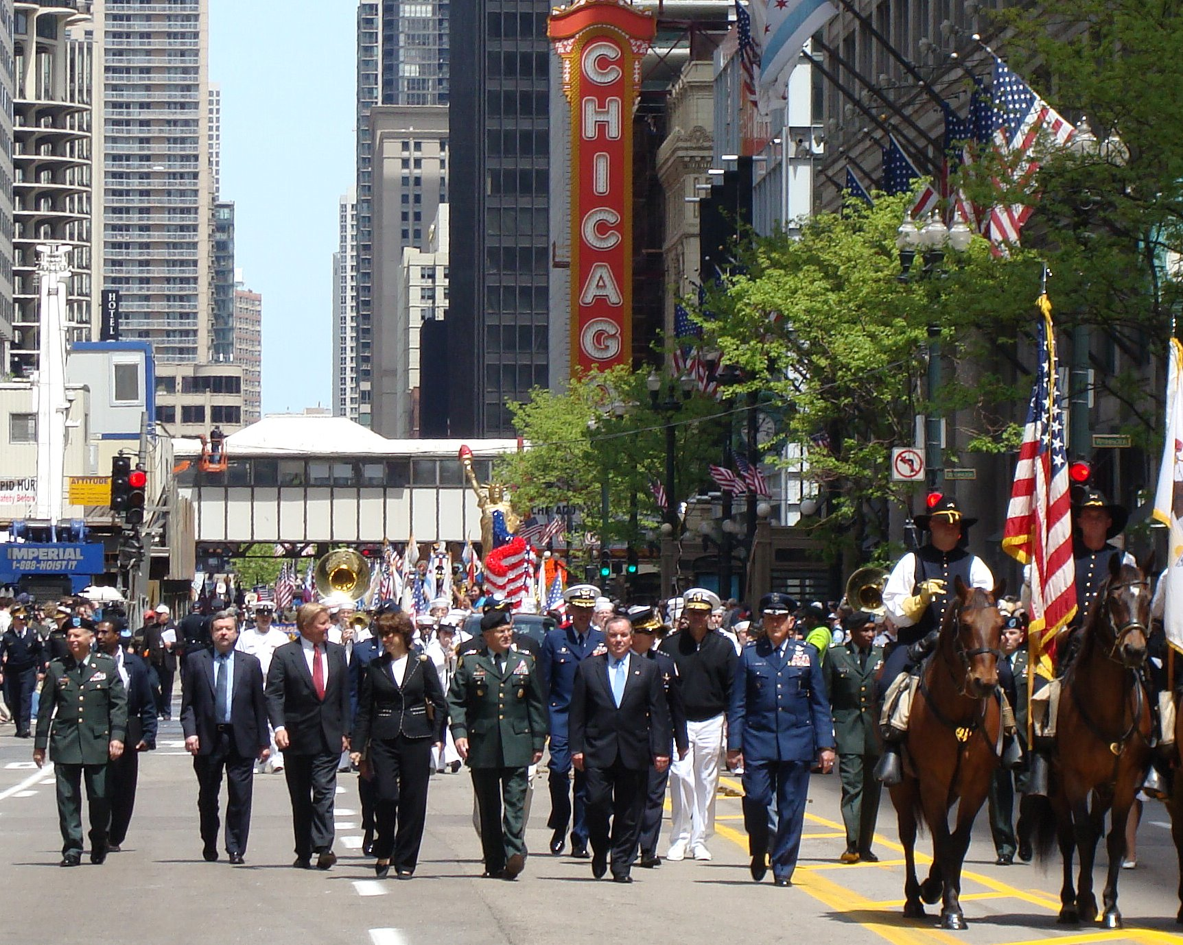 Chief of Staff of the United States Army Gen. George W. Casey, Jr. walks with Chicago Mayor Richard M. Daley and other officials during the city of Chicago's Memorial Day parade on Saturday, May 24, 2008